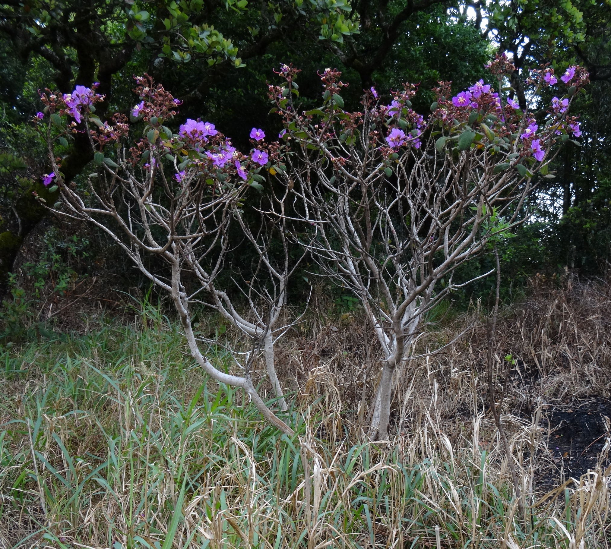 Dissotis on Mount Ribaue